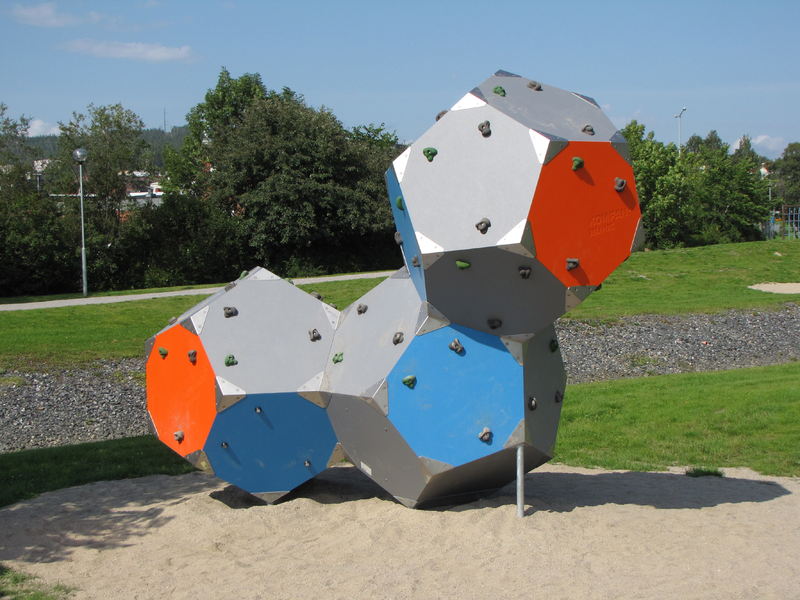 A climbing wall made up of three dodecahedrons, located in Örnsköldsvik, Sweden.